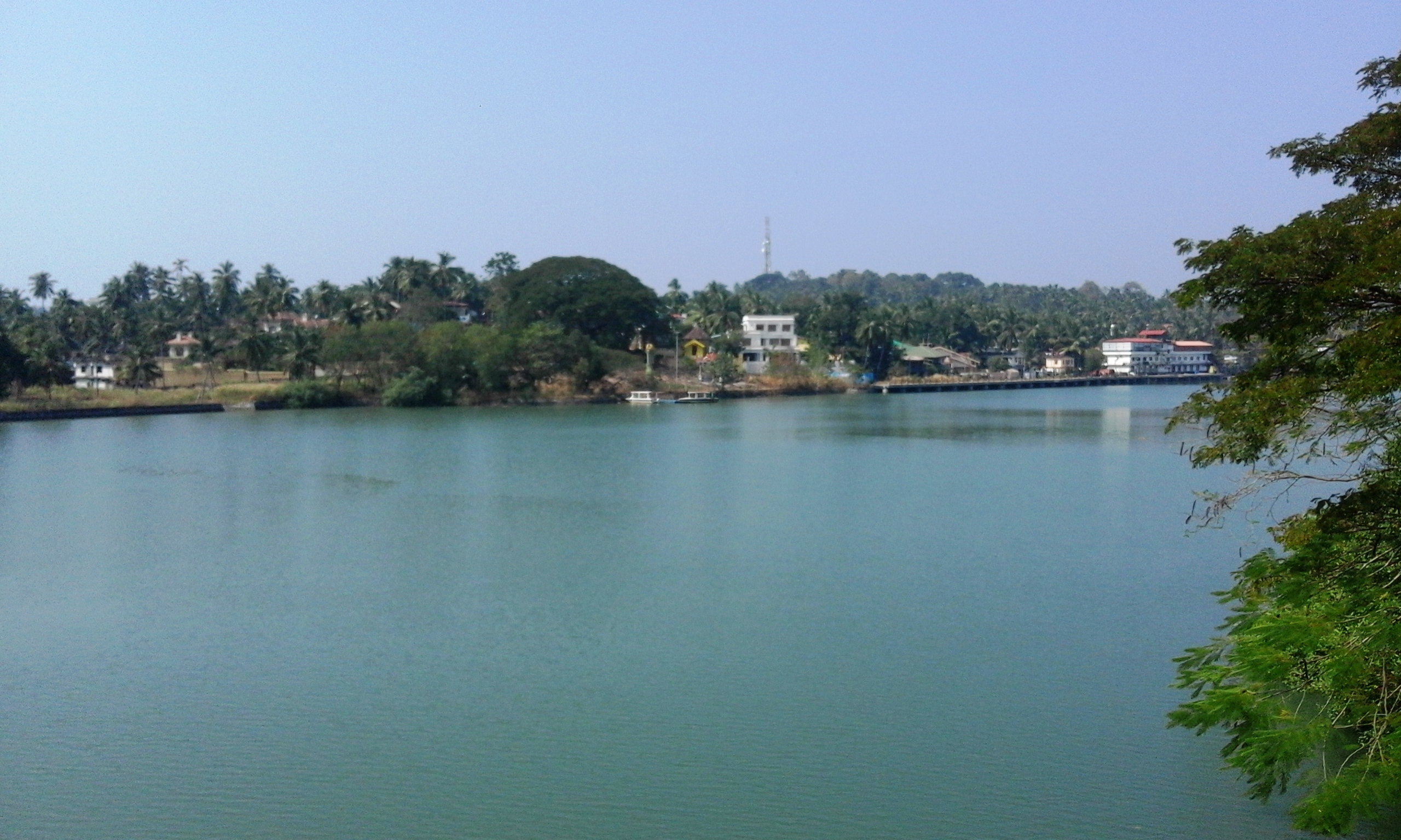 Mayyazhi town, Kannur, Kerala, India.